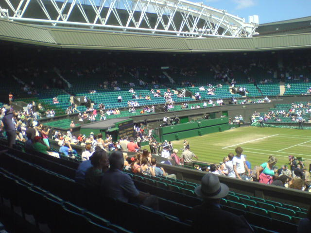 Left side in Centre Court at The All England Lawn Tennis Club.